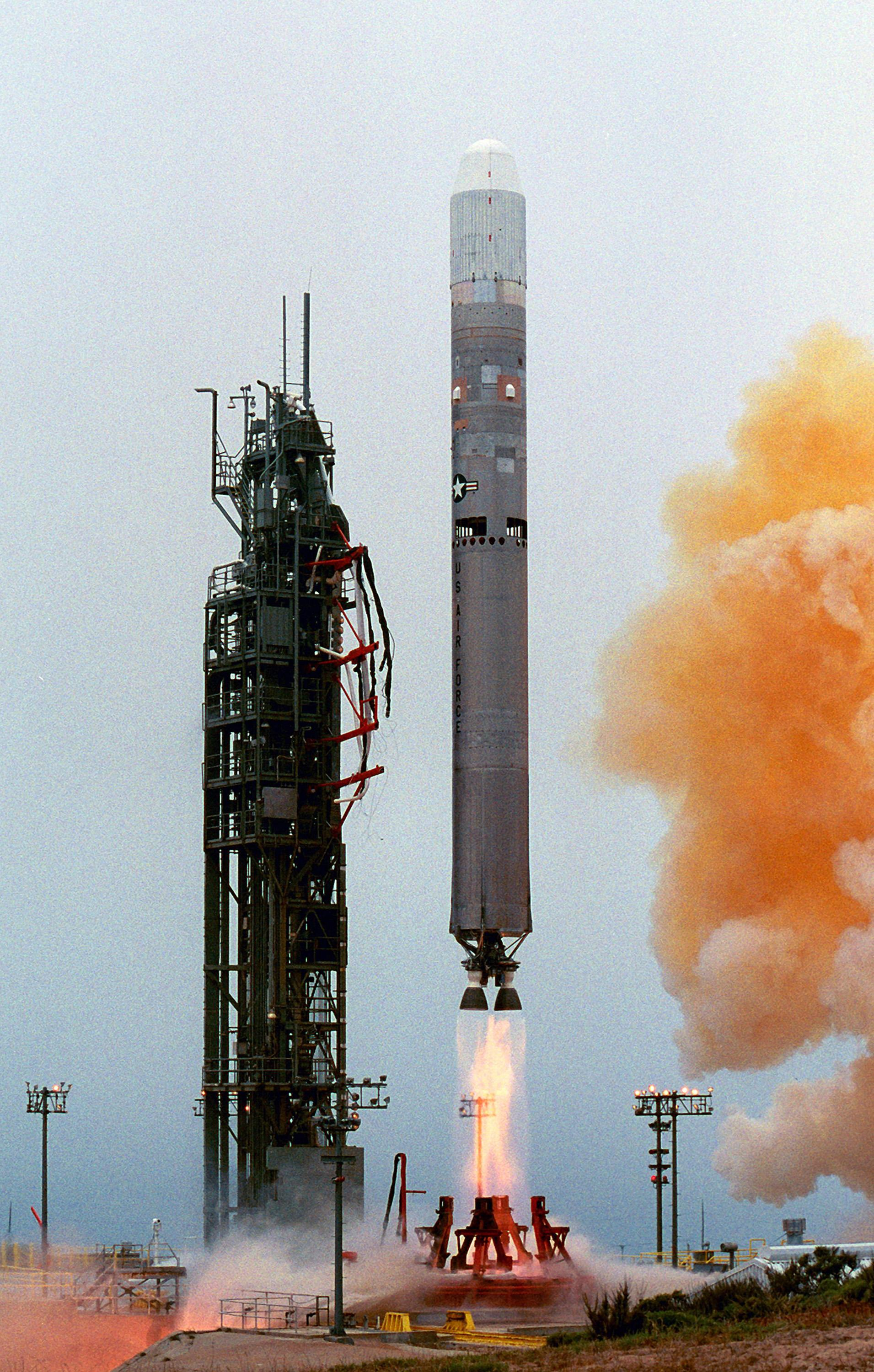 The National Oceanic and Atmospheric Administration (NOAA) spacecraft (NOAA-M) lifts off at 2:23 p.m. EDT aboard a Titan II rocket from Vandenberg Air Force Base, Calif. NOAA-M is another in a series of polar-orbiting Earth environmental observation satellites that provide global data to NOAA's short- and long-range weather forecasting systems.